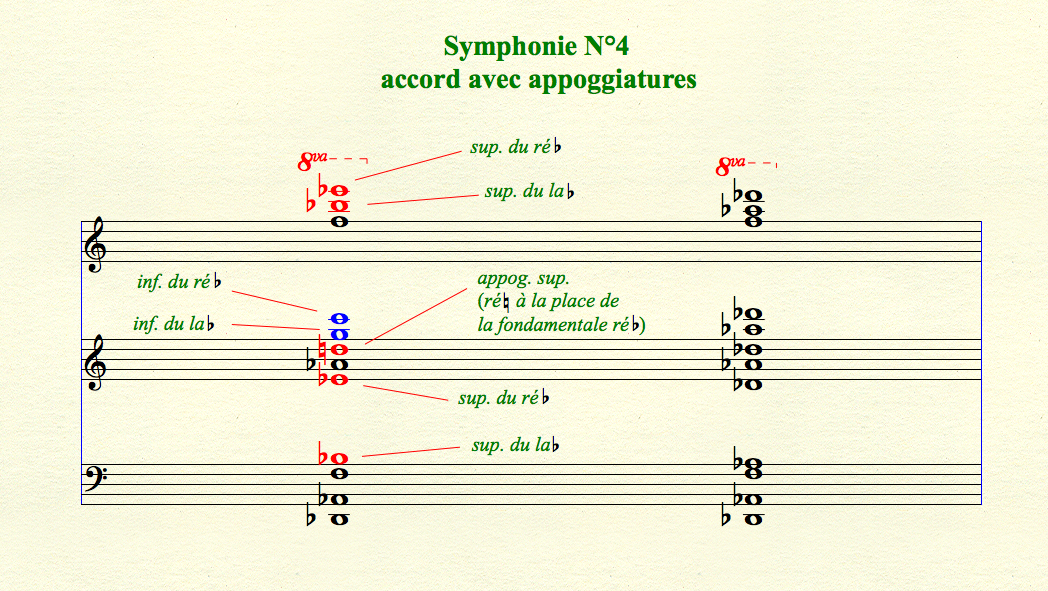 Bar 210 of the Symphony N°4 "Réminiscences" of Demis Visvikis